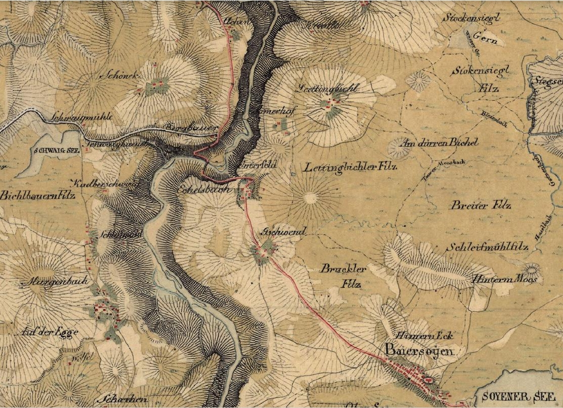 1838 route of the road crossing the Ammer near Echelsbach, Bavaria